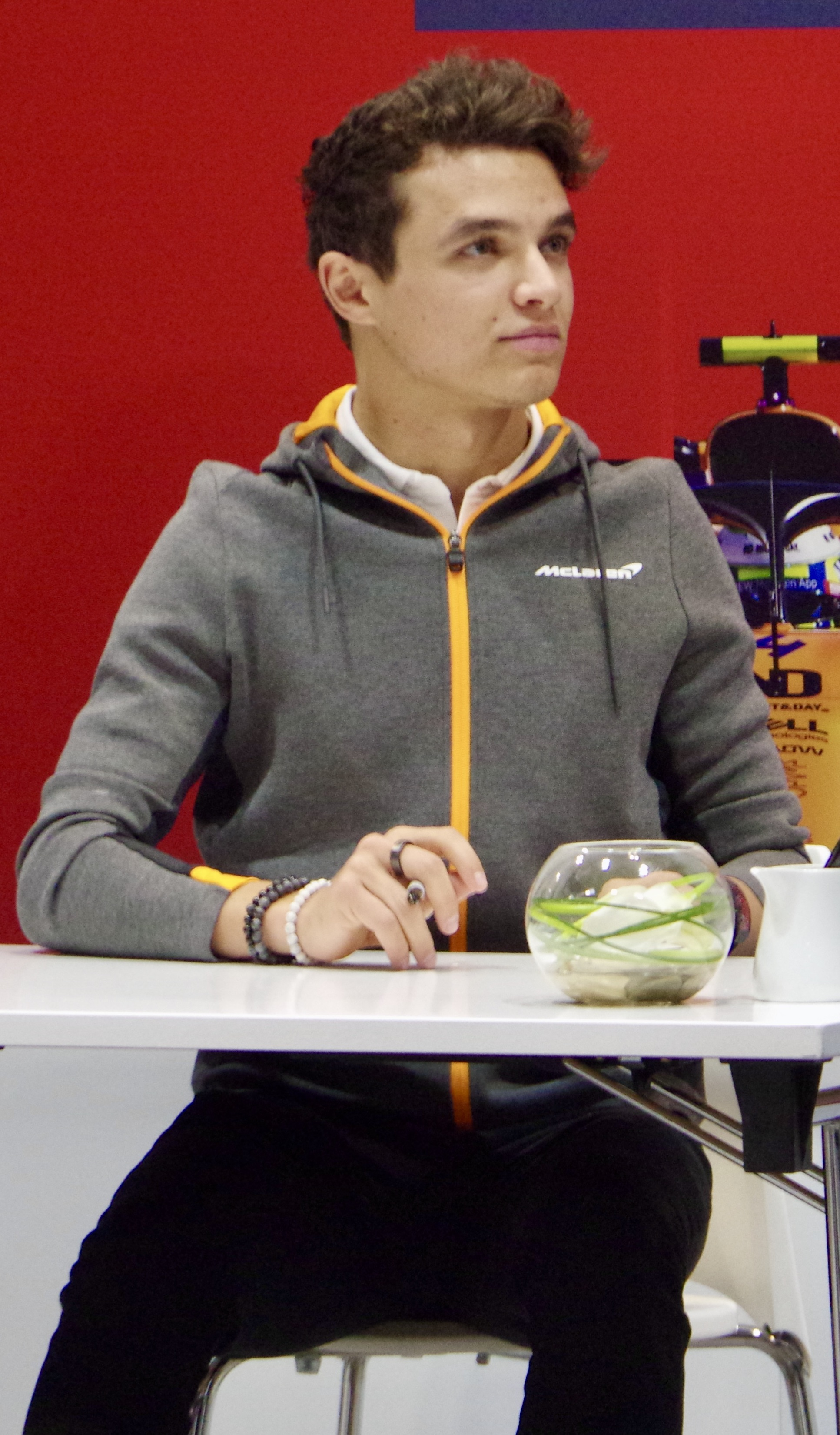 Autosport International Racing Car Show 2020